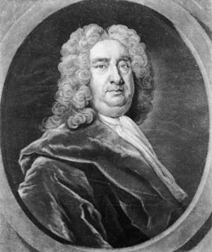 George Cheyne, 18th century Newtonian physician and theologian